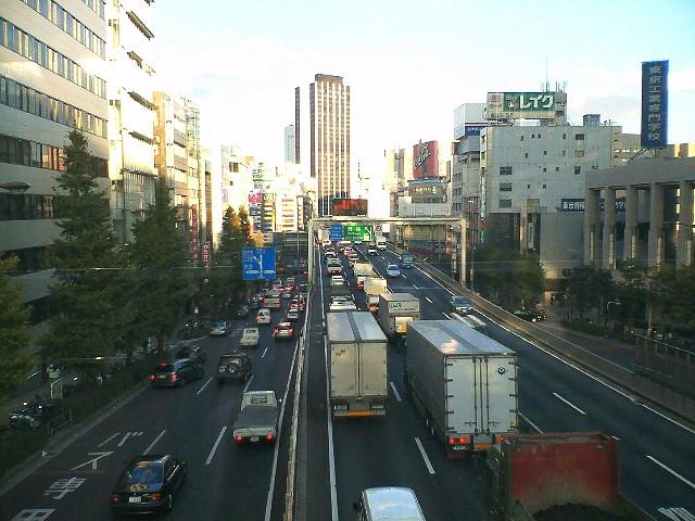 Metropolitan Expressway (Shuto-ko, Shuto-expressway) and Route 246, Shibuya, Tokyo, Japan.